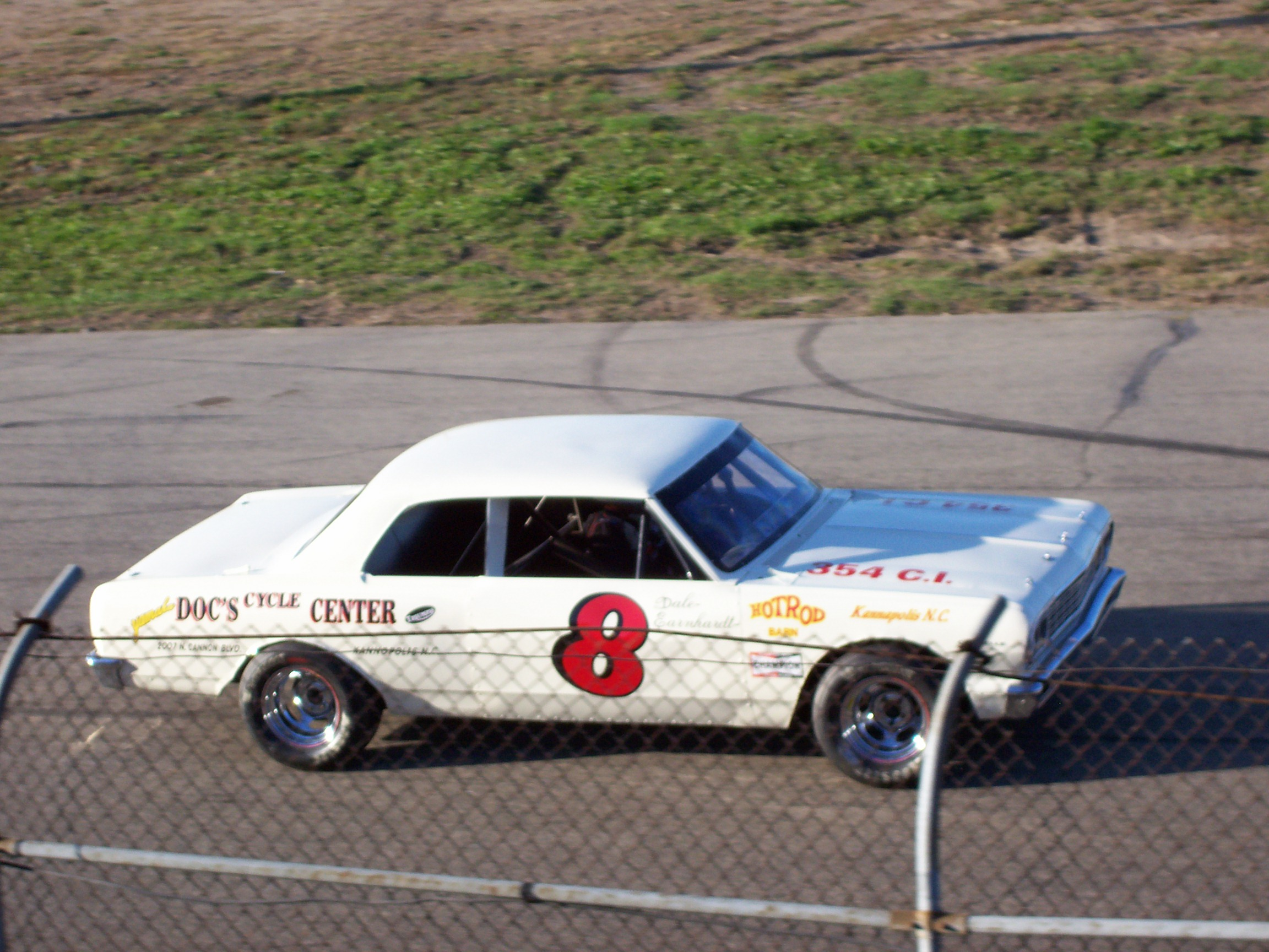 A replica of a Ralph Earnhardt #8 car. Taken at the final stockcar races at Lake Geneva Raceway on October 1 en:2006.